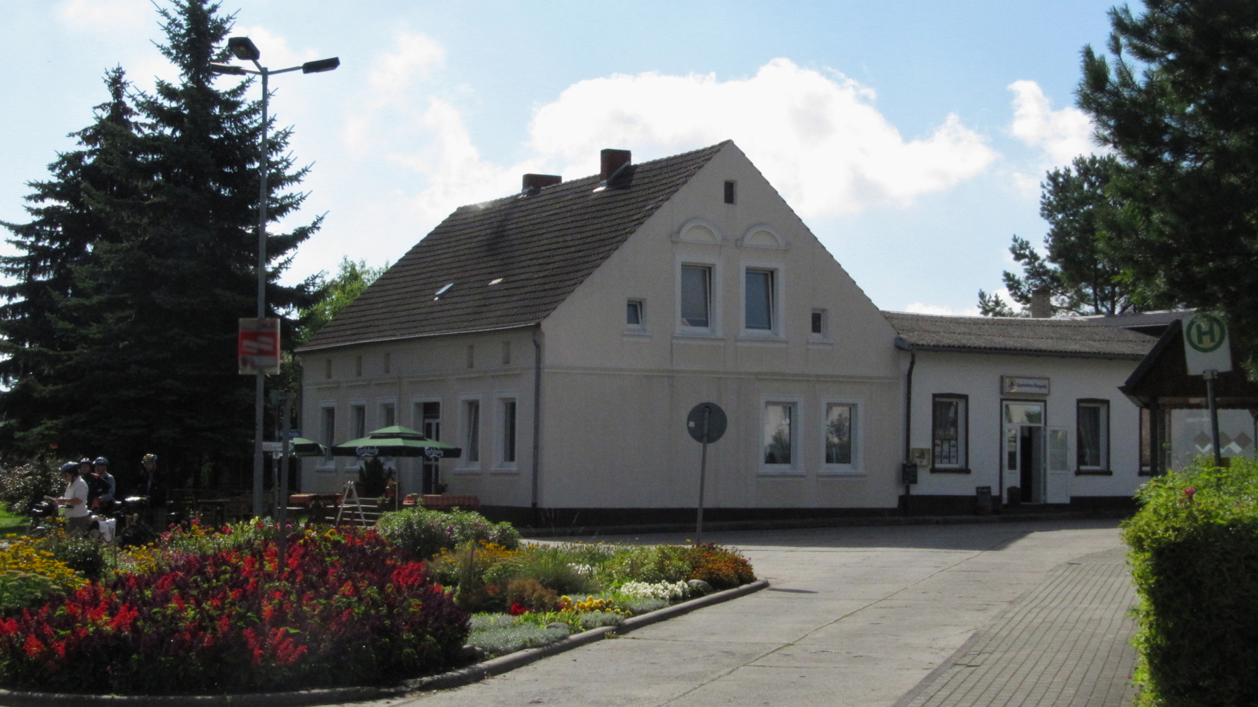 Blankensee in Western Pomerania